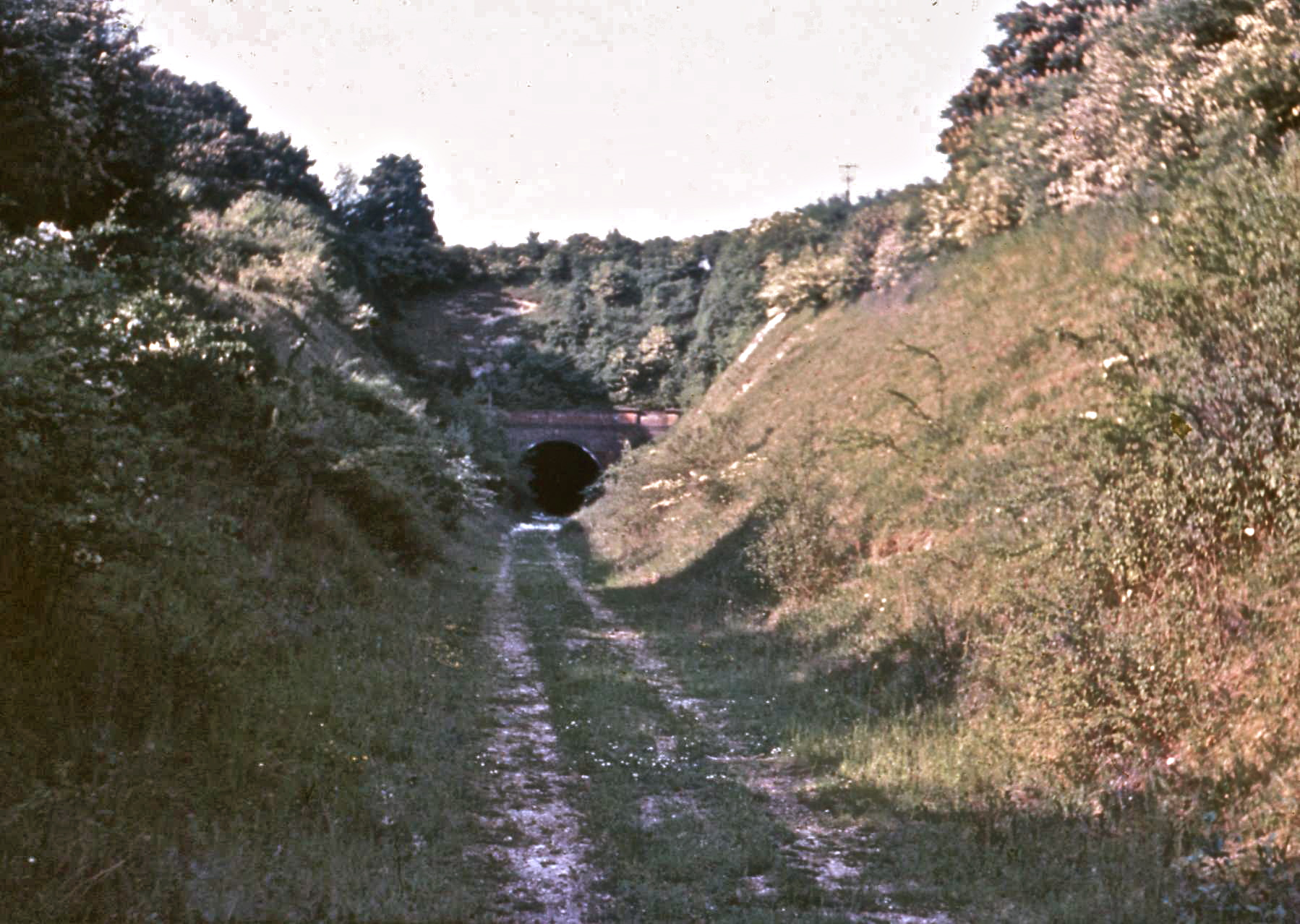 1970 tunnel still open